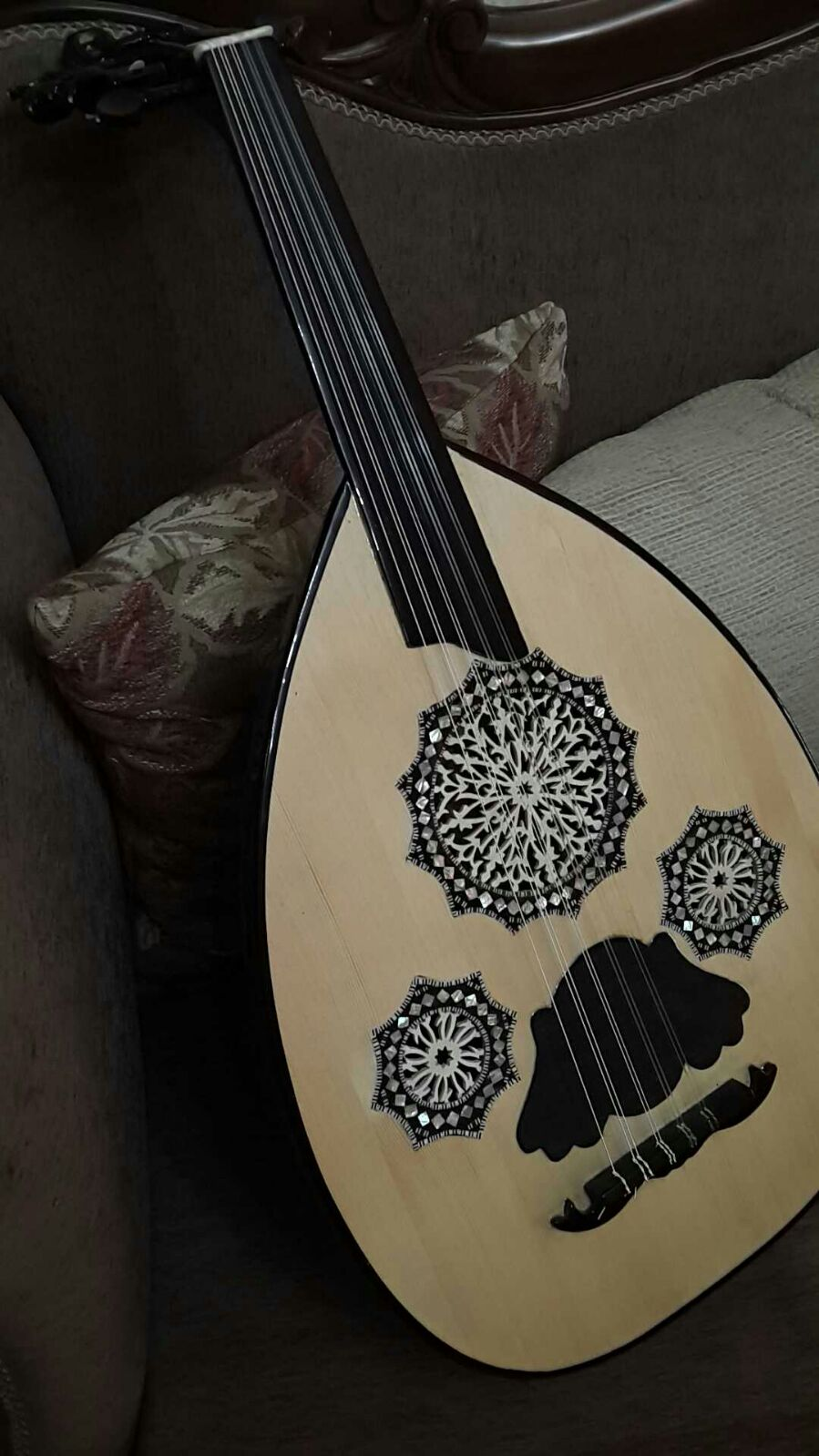 An oud, a fretless Arabic lute